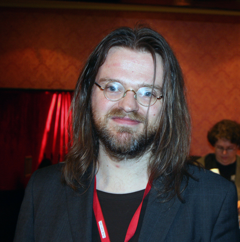 Swedish guitarist, producer and musician Christoffer Lundquist after Per Gessle's Party Crasher concert in Cologne, Germany, 27 April, 2009.